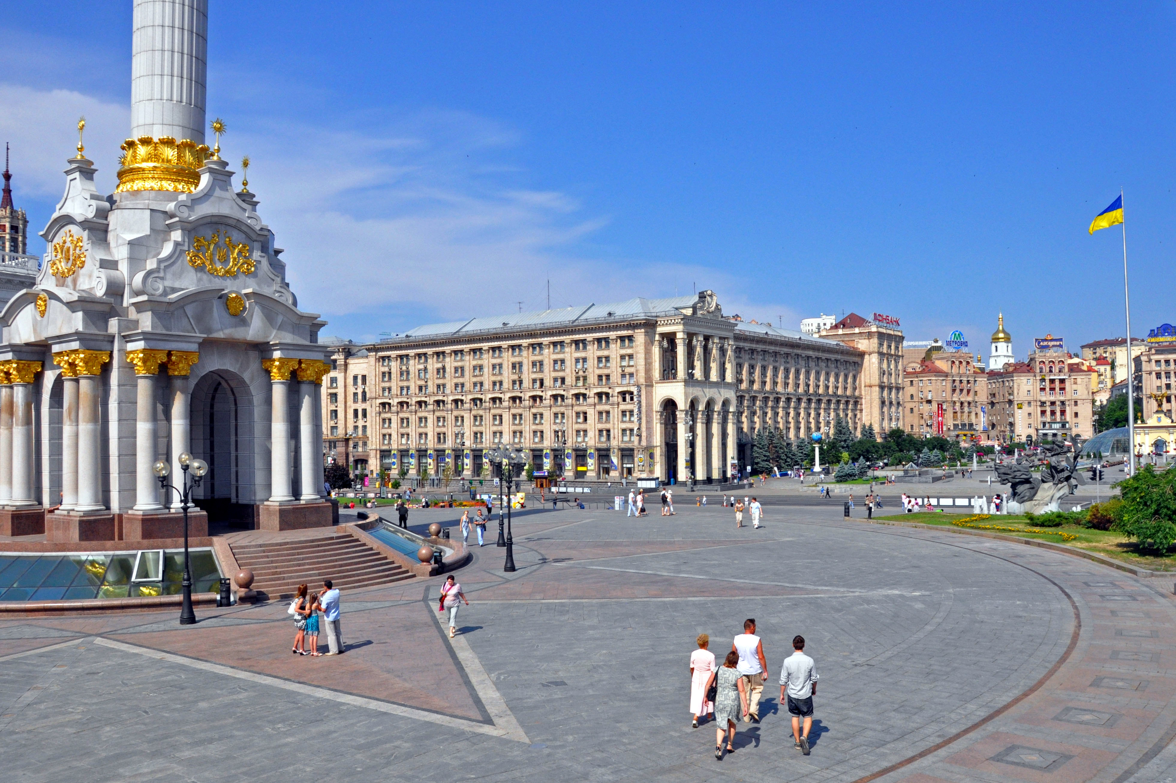 Kiev's Maidan Nezalezhnosti, or Independence Square. On the left is bottom part of the Monument of Independence.